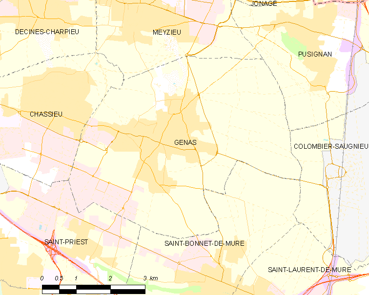 Map of French municipality